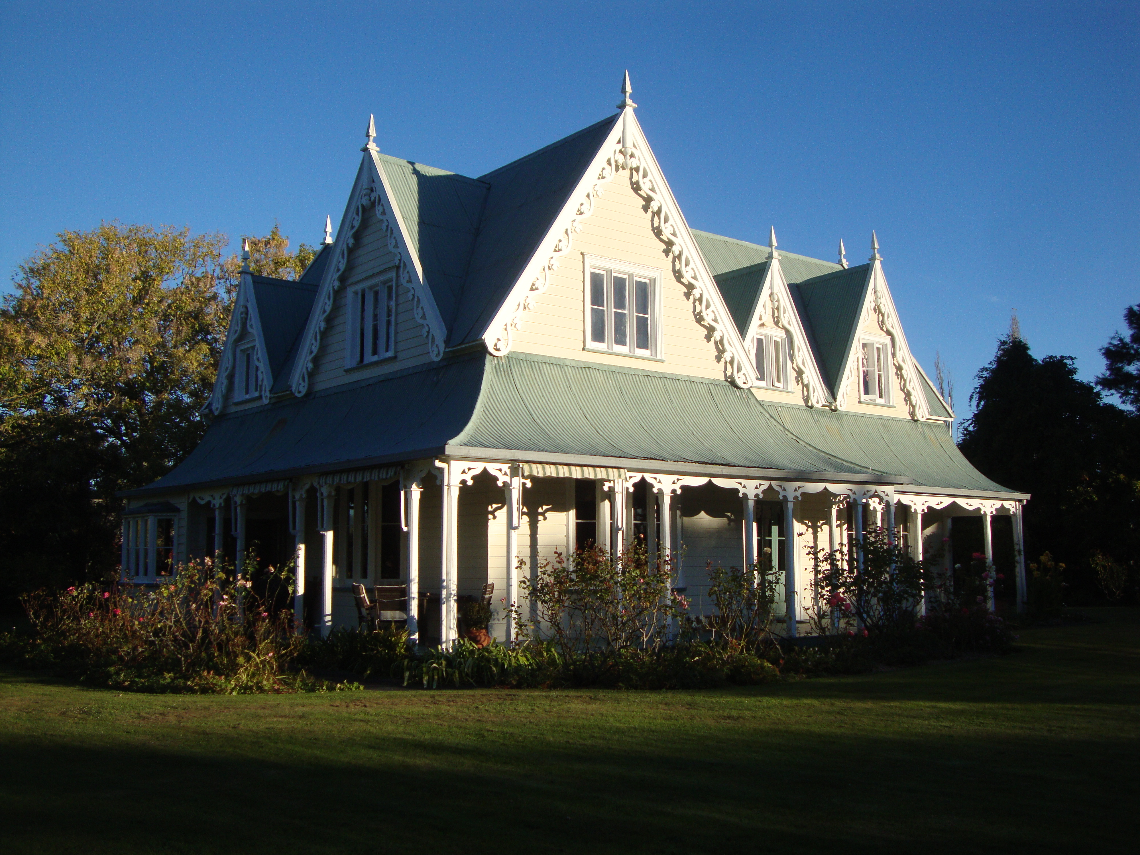 Stafford Place in April 2012.